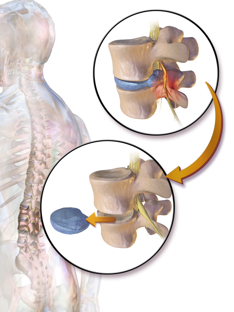 Discectomy. See a related animation of this medical topic.